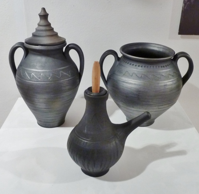 Black pottery of Llamas del Mouro (21st century), copying a traditional model of Spanish Northwest. Cangas de Narcea (Asturias), Spain.